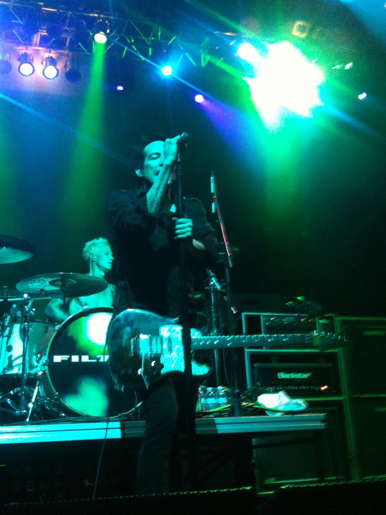 The singer of Filter Richard Patrick performing in Boston on September 9 2013